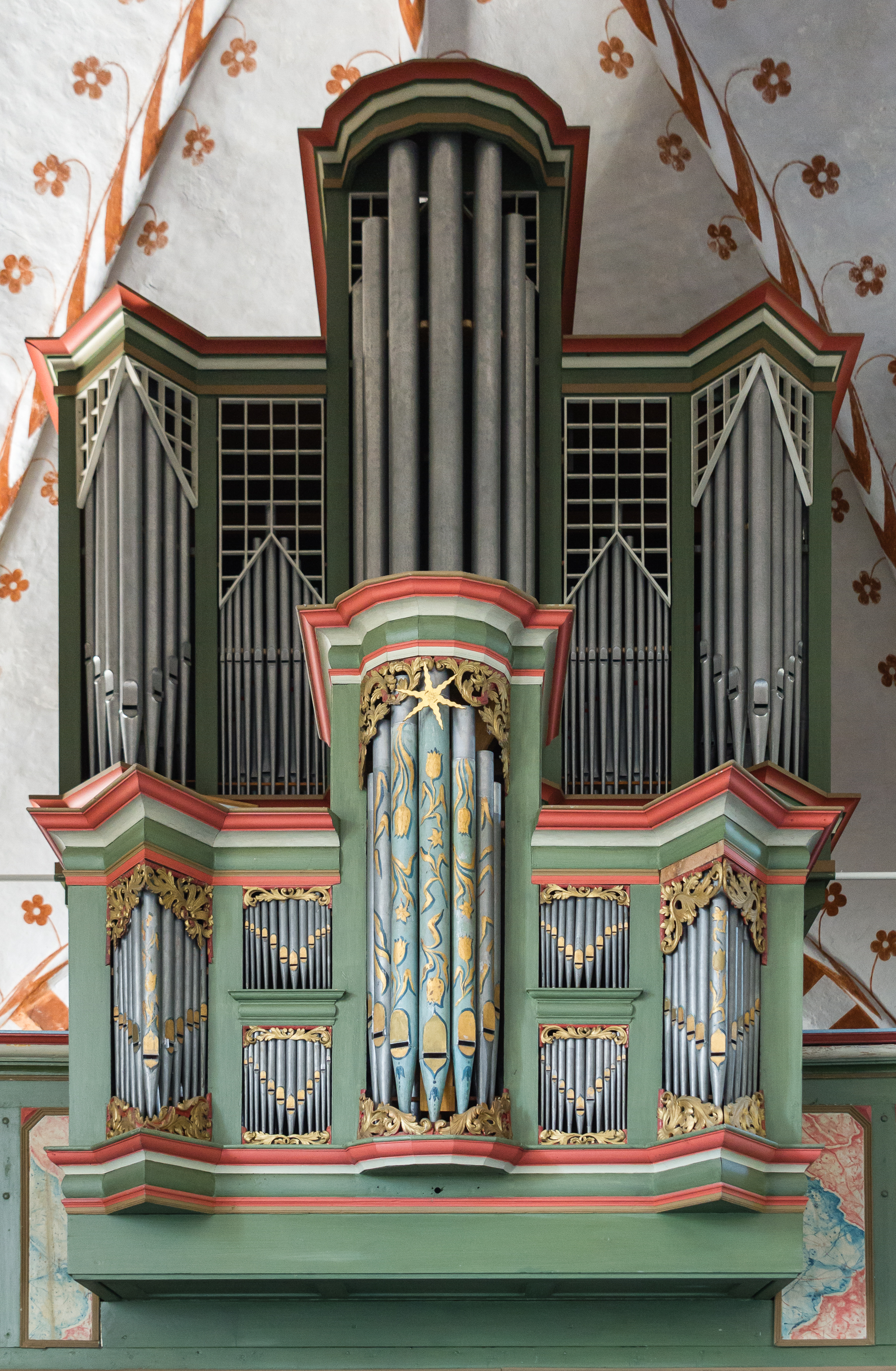 Designation: Church St. Nicolai with equipment Location: Kirchweg Place: Wyk-Boldixum, Collective municipality Föhr-Amrum, District Nordfriesland, Schleswig-Holstein, Federal Republic of Germany Construction time: 13th century Description: Romanesque church building with gothic and baroque extensions Object identification: 1510